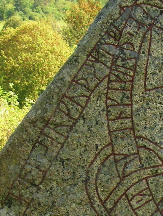 runic stone Upplands runinskrifter 875 - prayer sequence